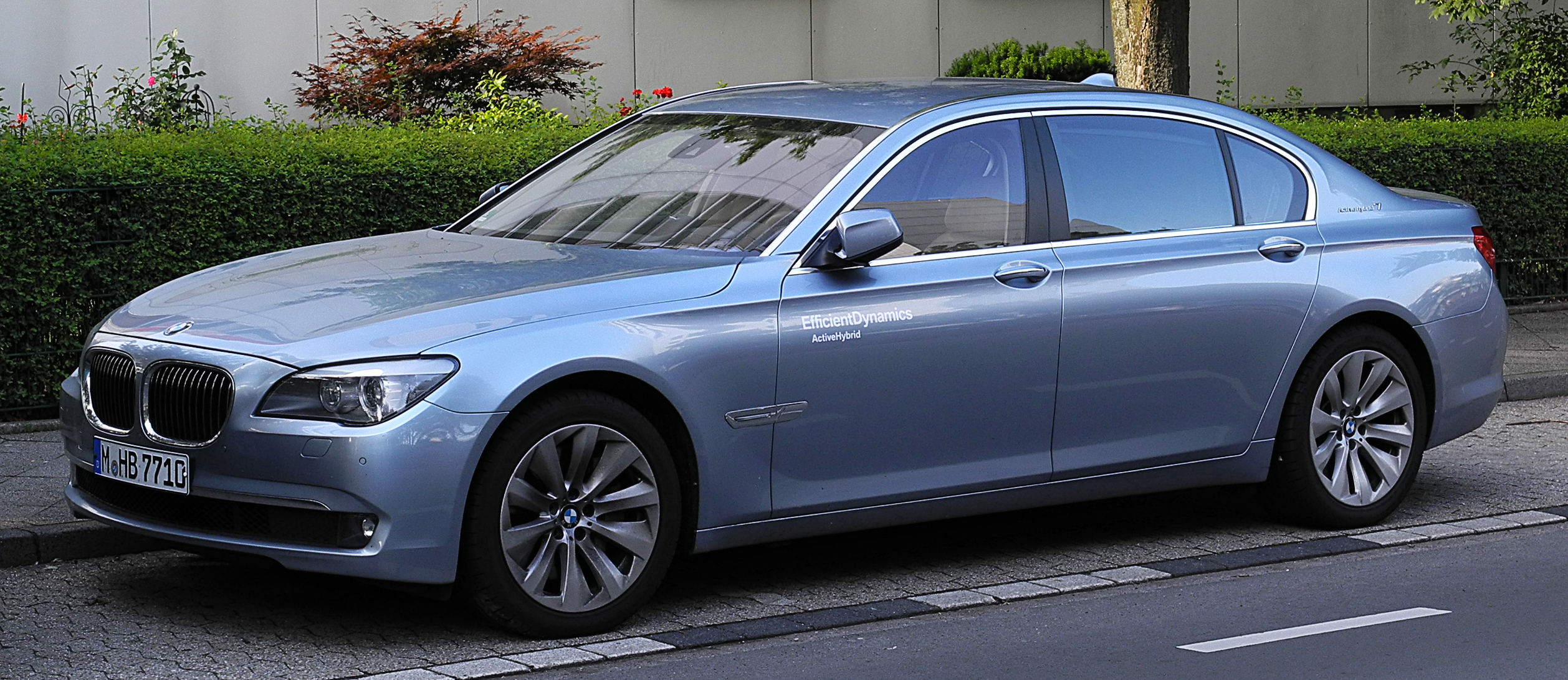 BMW ActiveHybrid 7 L (F02)